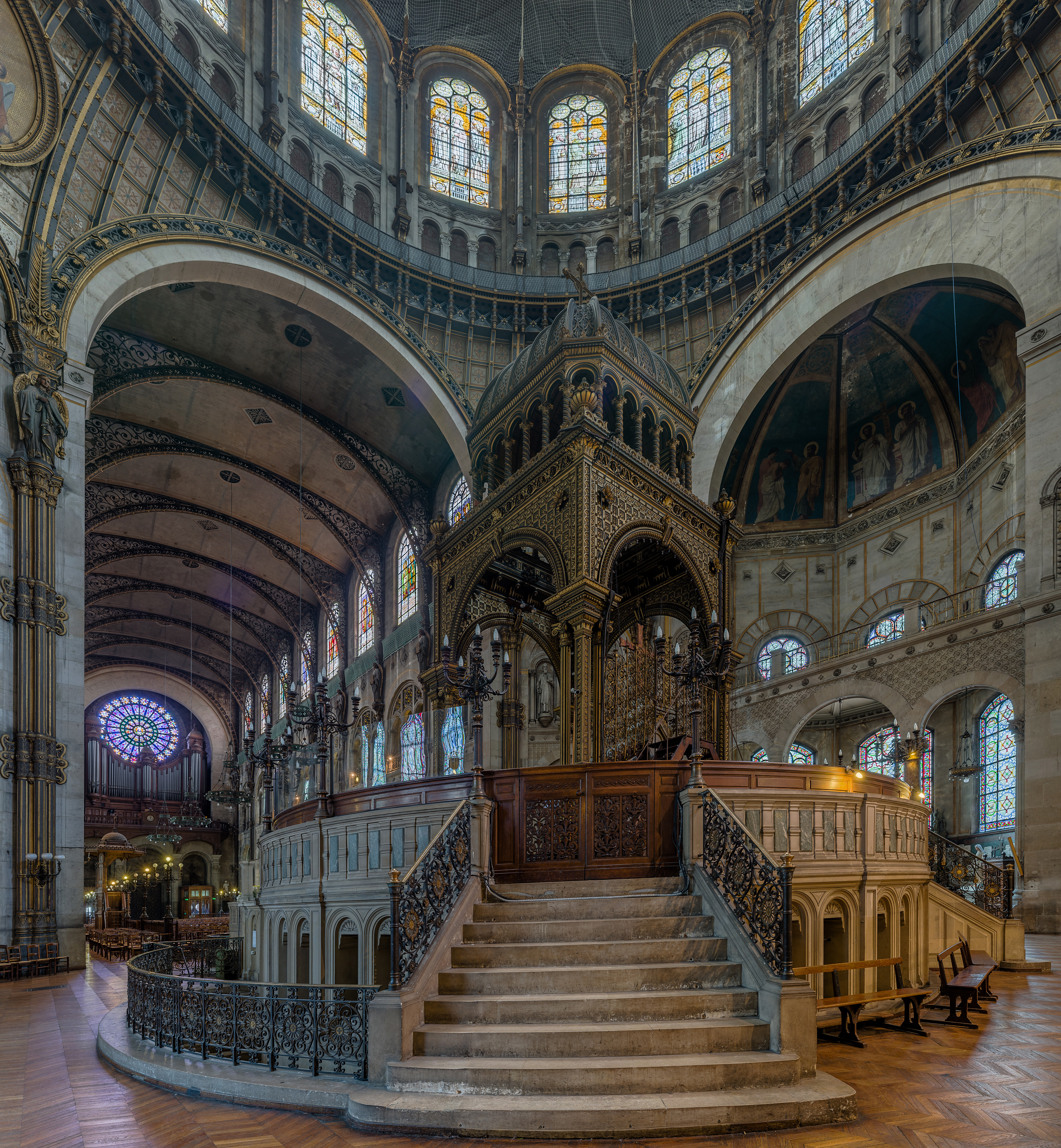 The altar and dome of Saint-Augustin in Paris, France.